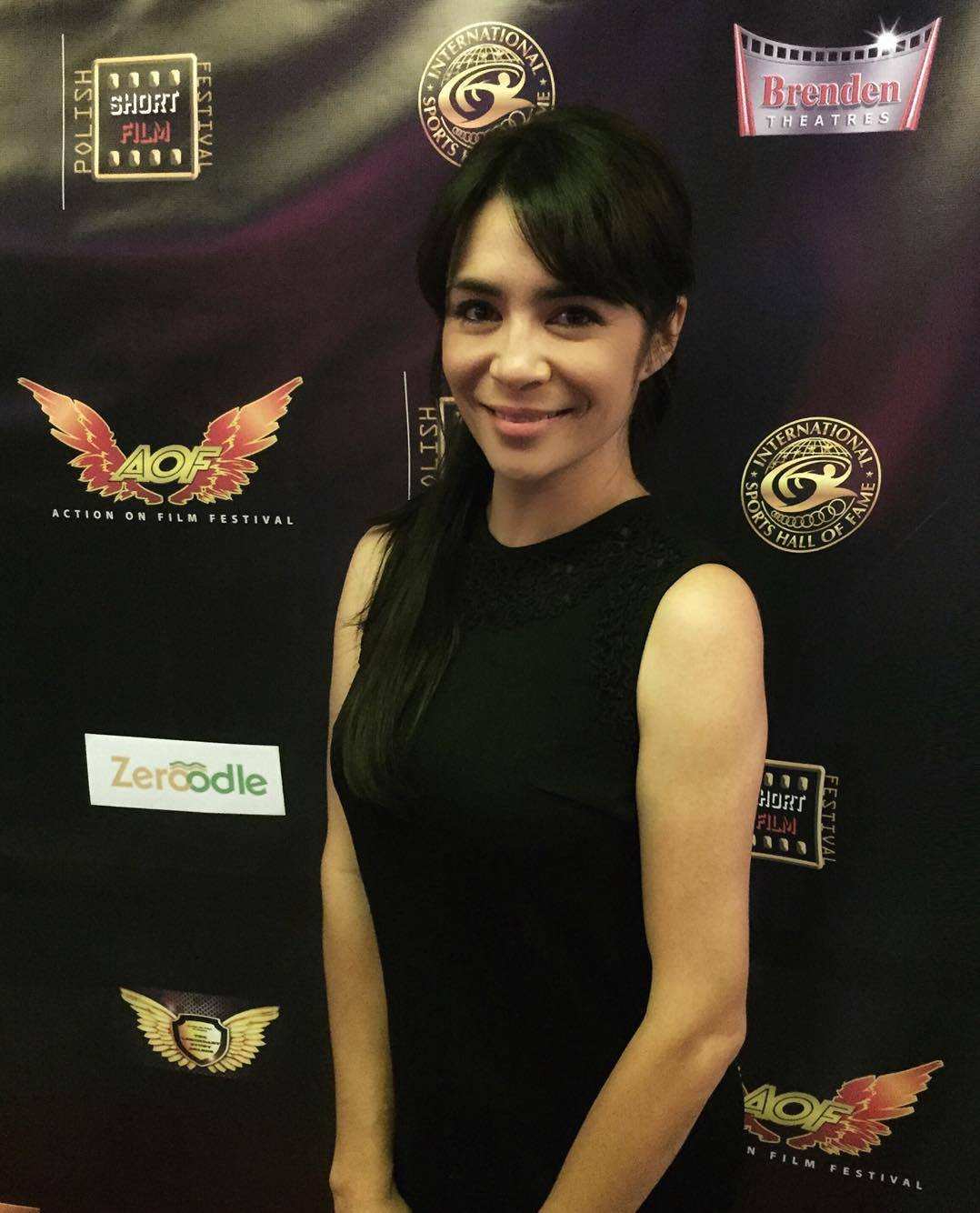 Photo taken at Short Film Awards